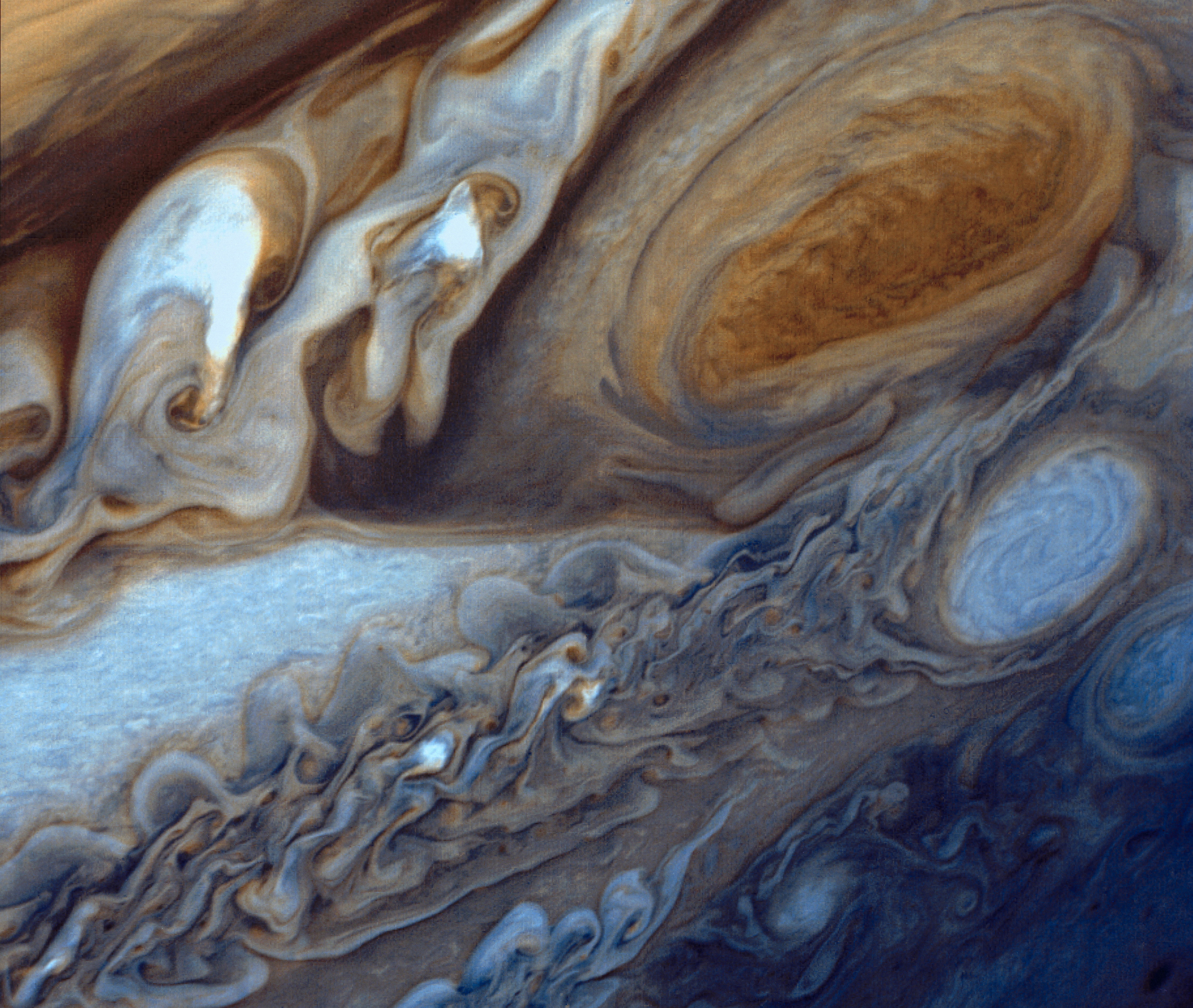 Detail of Jupiter's atmosphere, as imaged by Voyager 1. Suggested for English Wikipedia:alternative text for images: This view of Jupiter's clouds with the Great Red Spot at top right as brown oval to right of wavy white and brown clouds. Below the Great Red Spot are various bands of bluer wavy clouds at smaller scales with smaller light blue spots